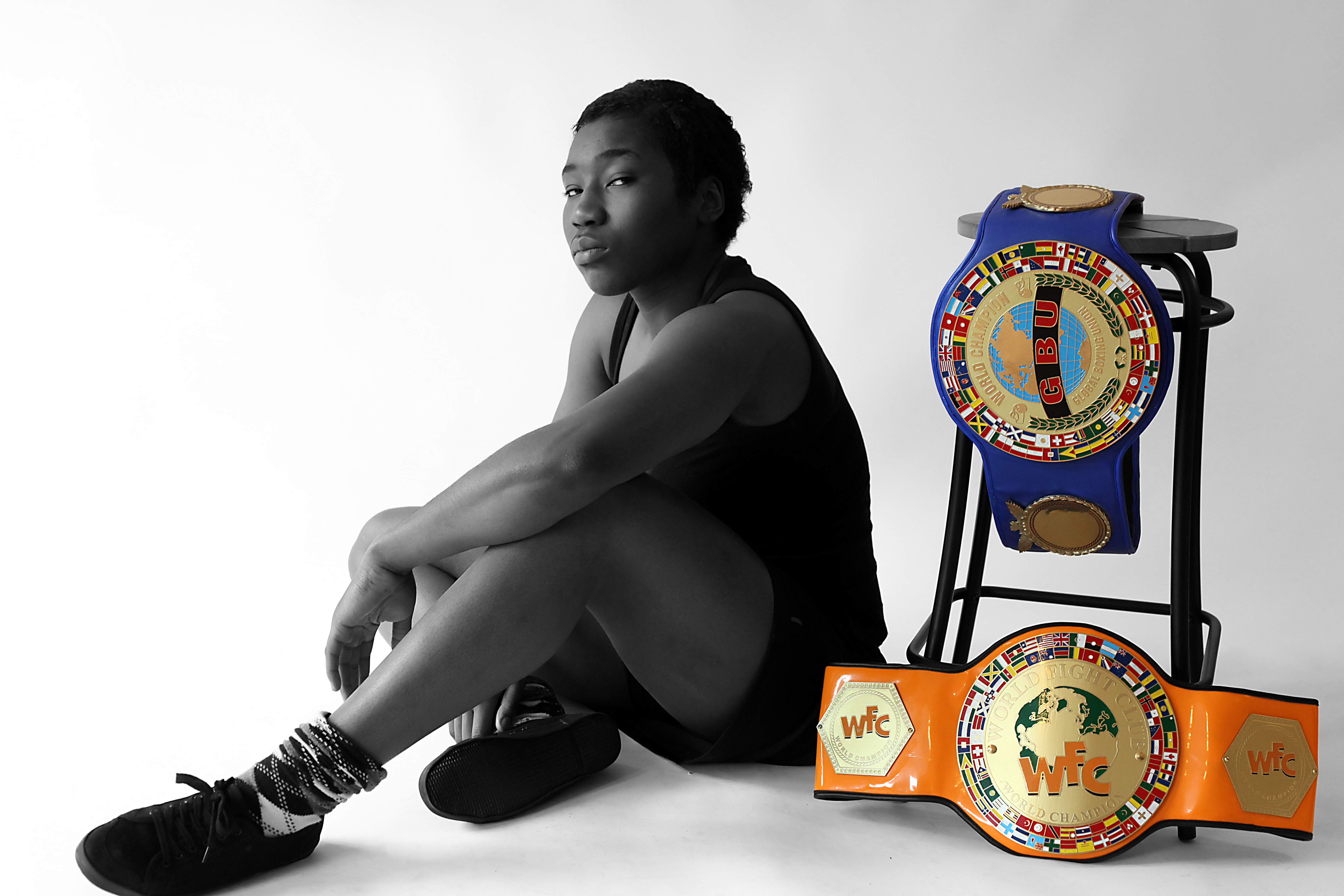 15 Time World Champion, Jessica Balogun